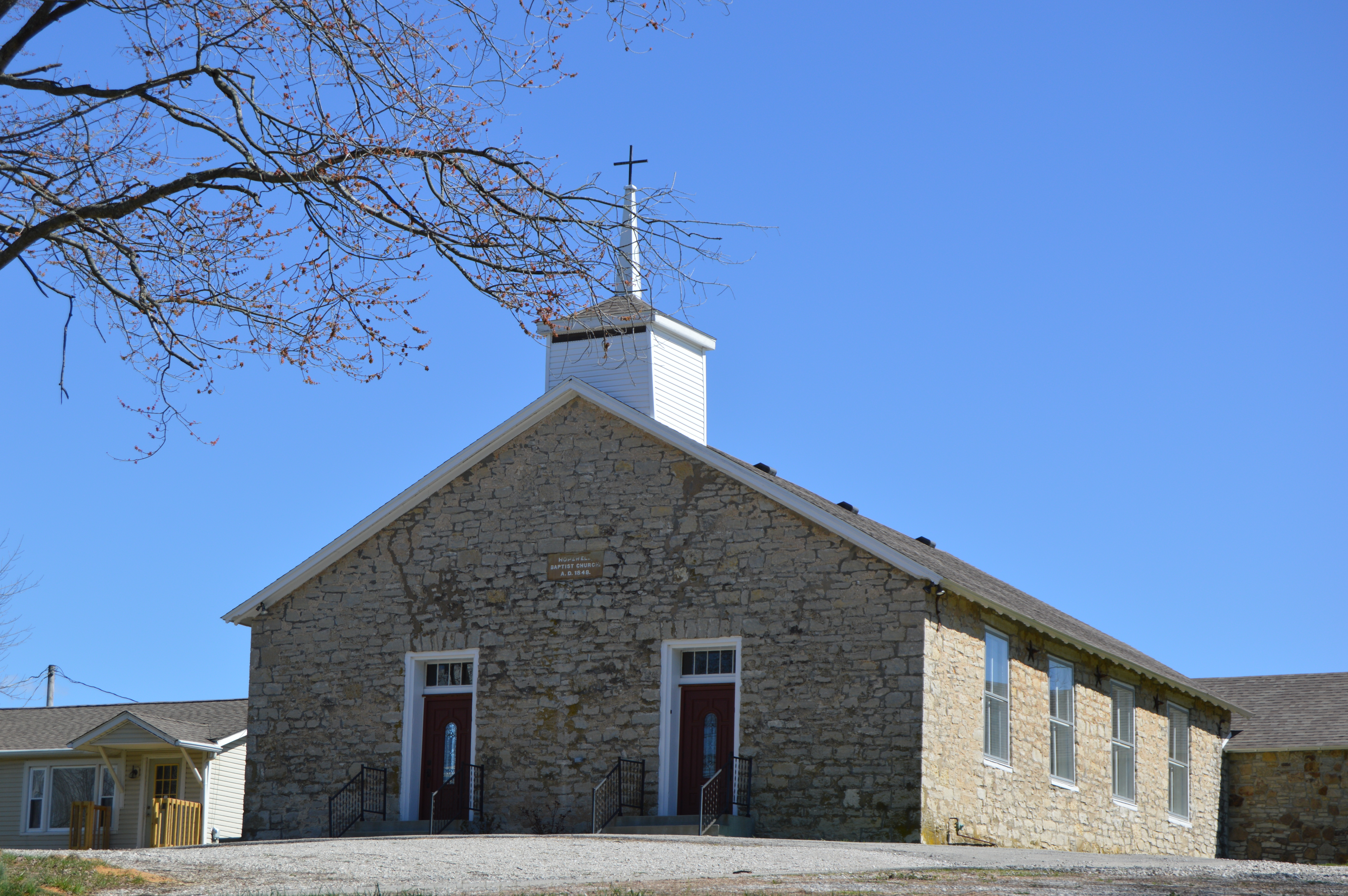 Front and southern side of Hopewell Baptist Church, located on Thompson Road at Volga in Smyrna Township, Jefferson County, Indiana, United States. It was built in 1848.